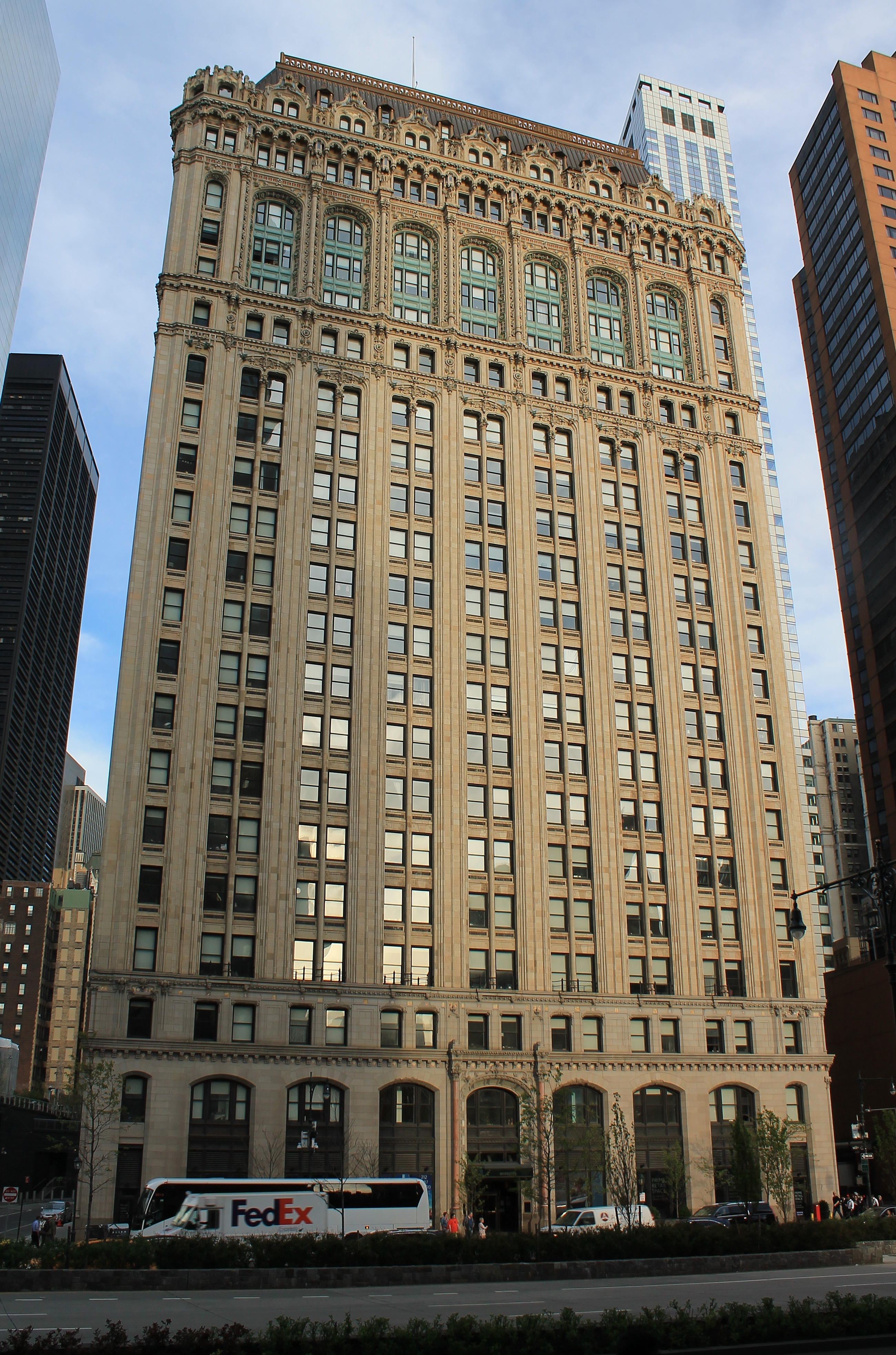 90 West Street seen in April 2017.